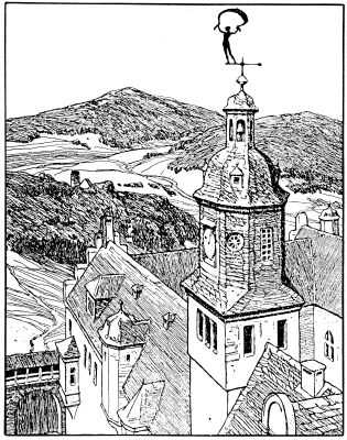 Illustration by Otto Ubbelohde to the fairy tale The True Bride